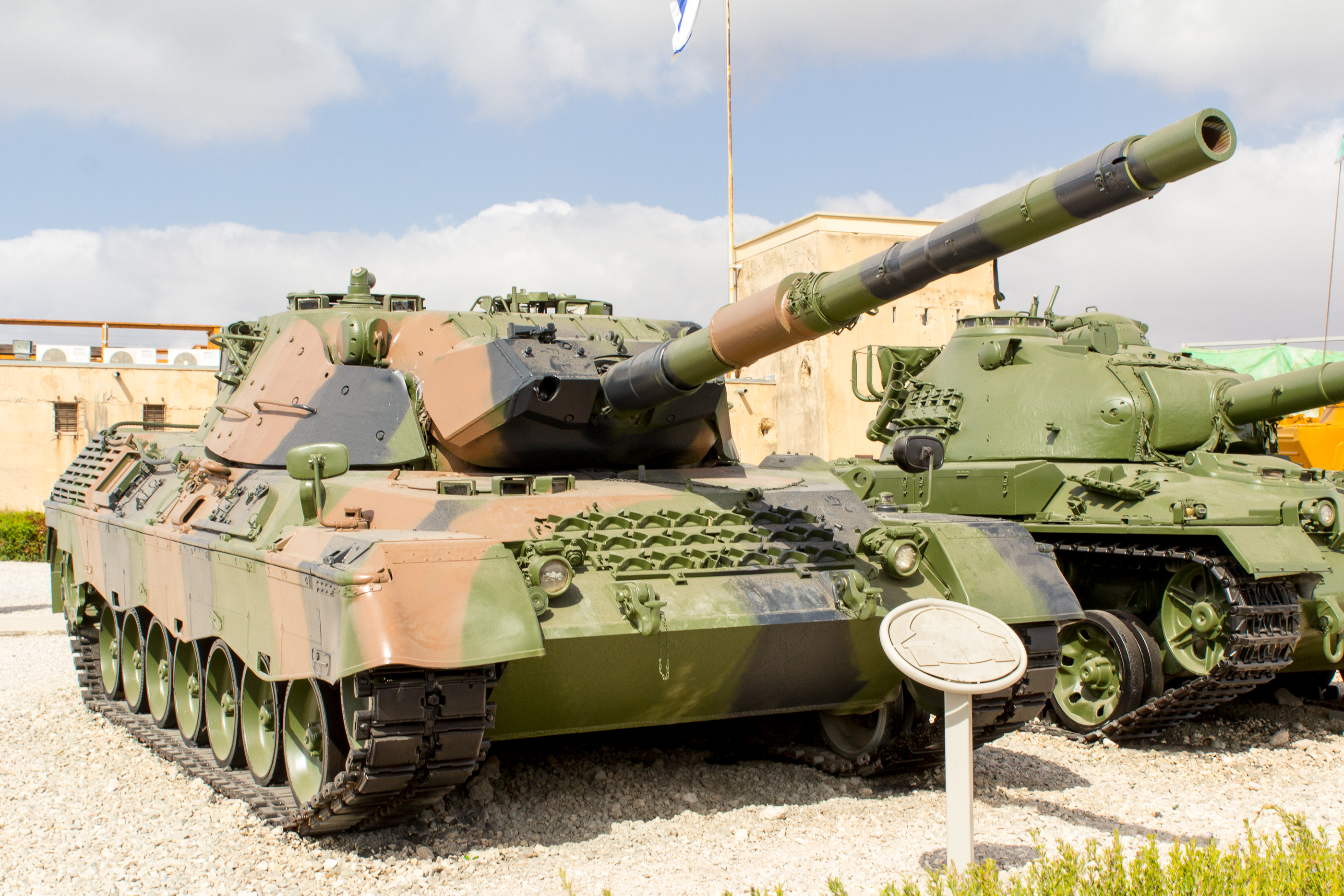 Leopard 1A1 at the Yad LaShiryon museum, Latrun, Israel